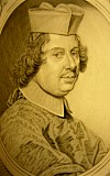 Giambattista Costaguti